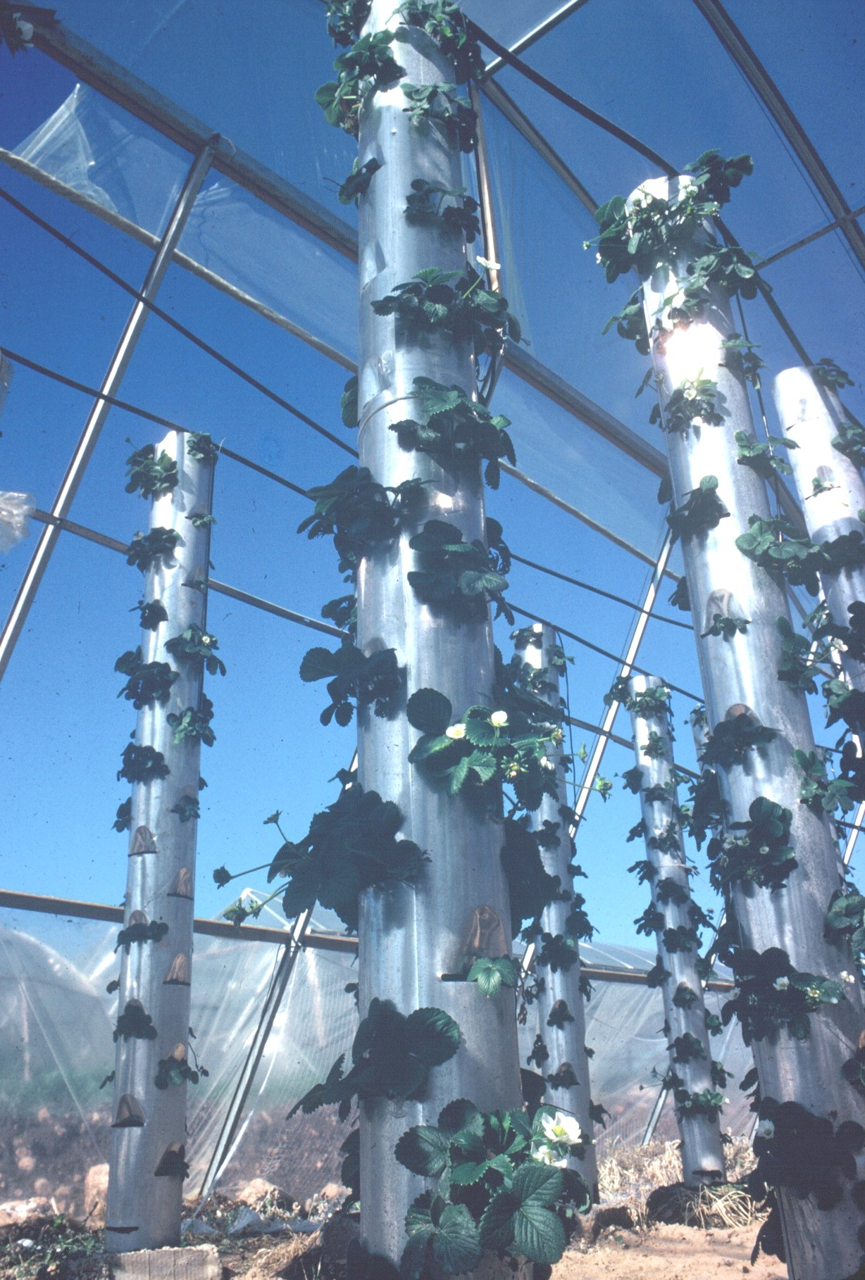 Agriculture in the Golan Heights